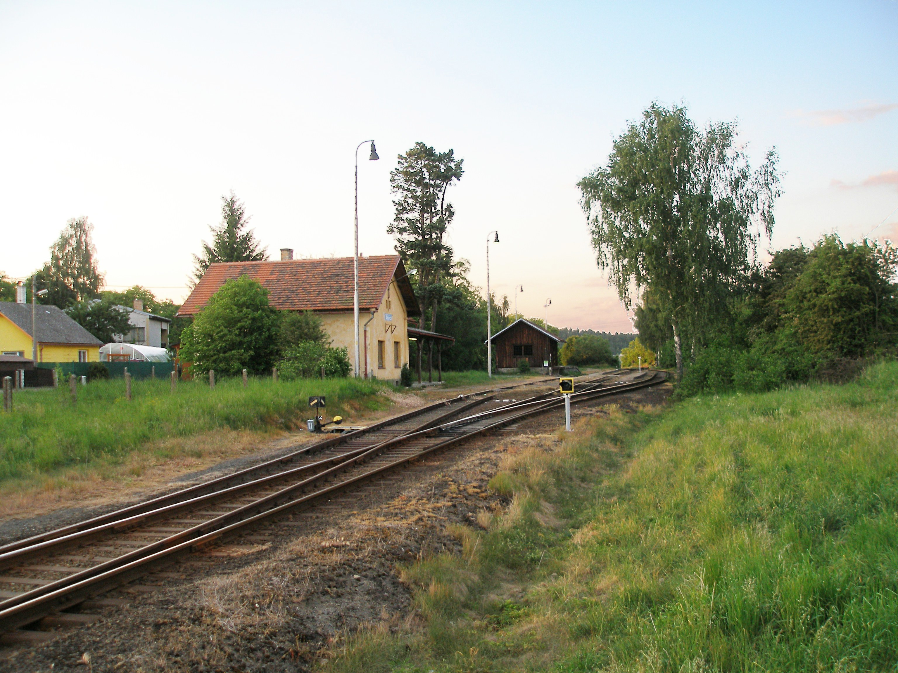 Bělčice - the railway station